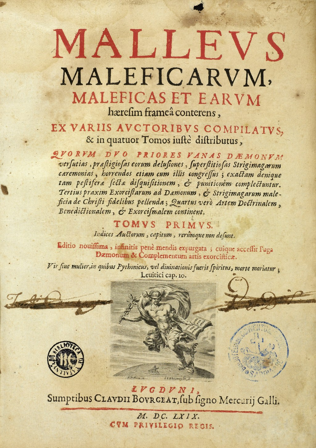 Title page. Rare Books Keywords: Psychiatry